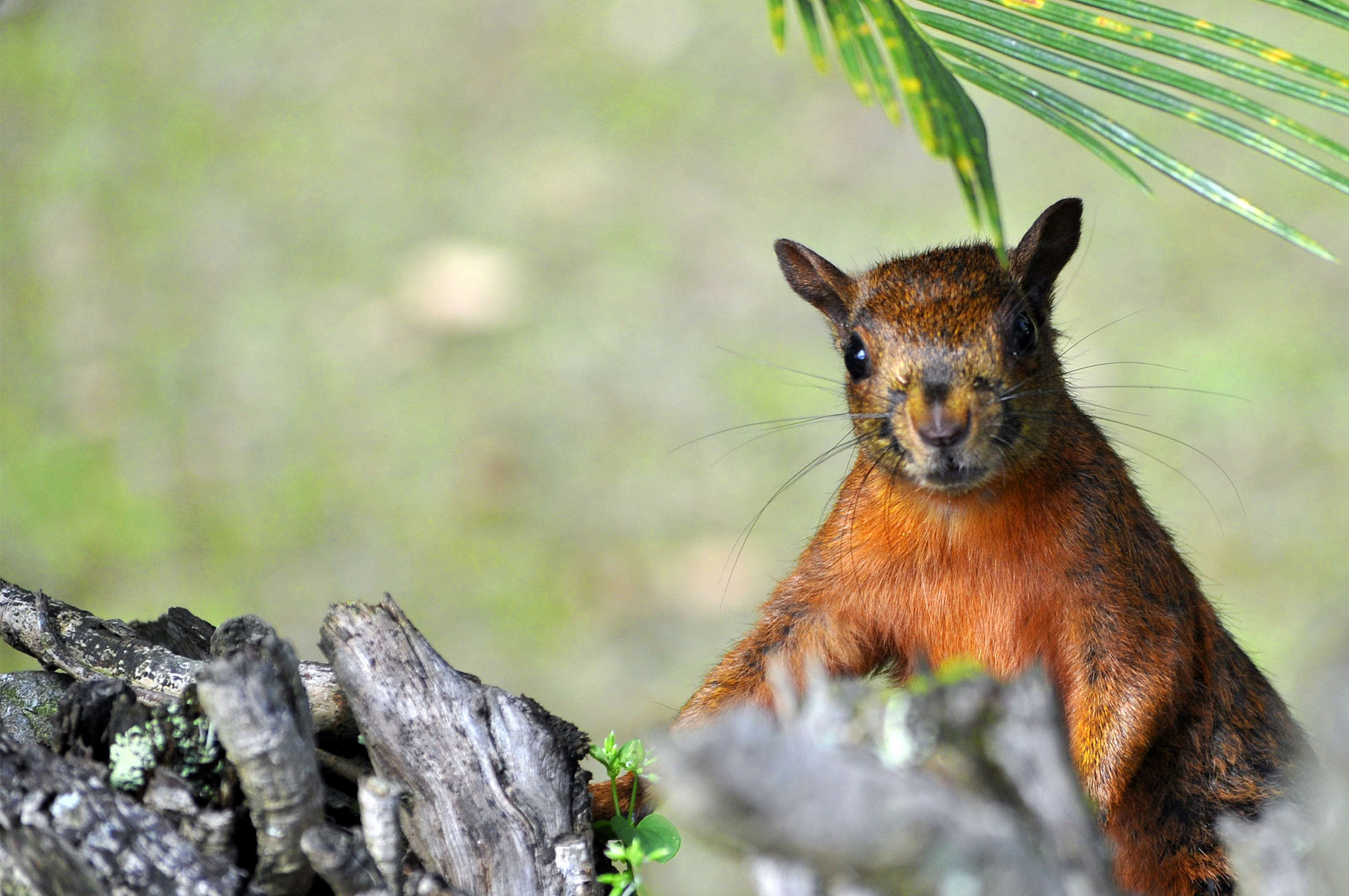 Red-tailed squirrel